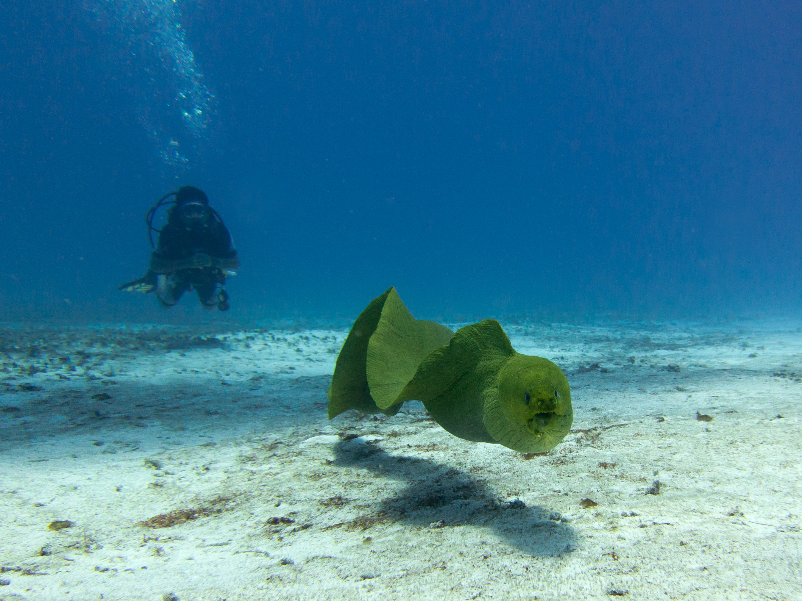 A free swimming green moray eel (Gymnothorax funebris) with diver, Cozumel, Mexico